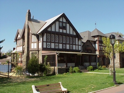 photograph of #4 boathouse row